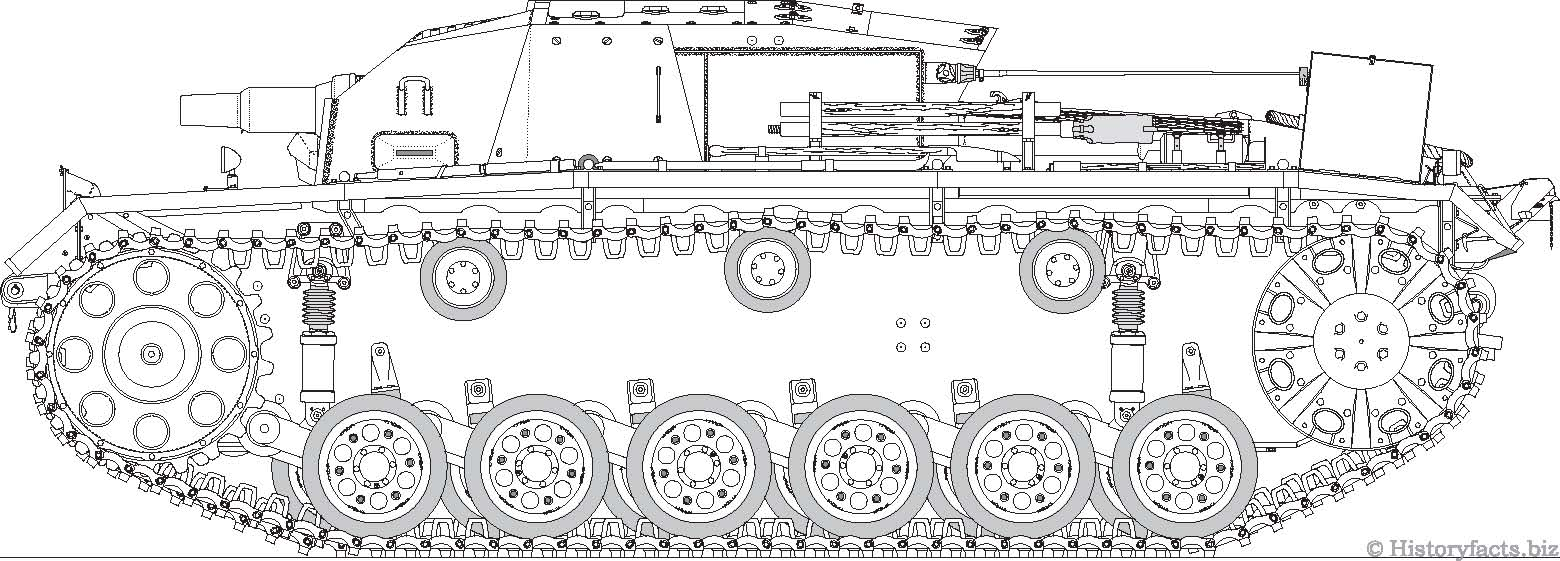 Side drawing of a Assault Gun III, Variant A